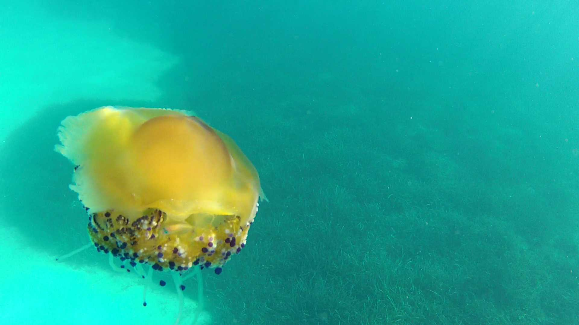 Mediterranean jelly or fried egg jellyfish (Cotylorhiza tuberculata) at Aegean sea near Chalkidiki. This jellyfish's sting has very little or no effect on humans. Notice the small fish living inside the jelly's body.